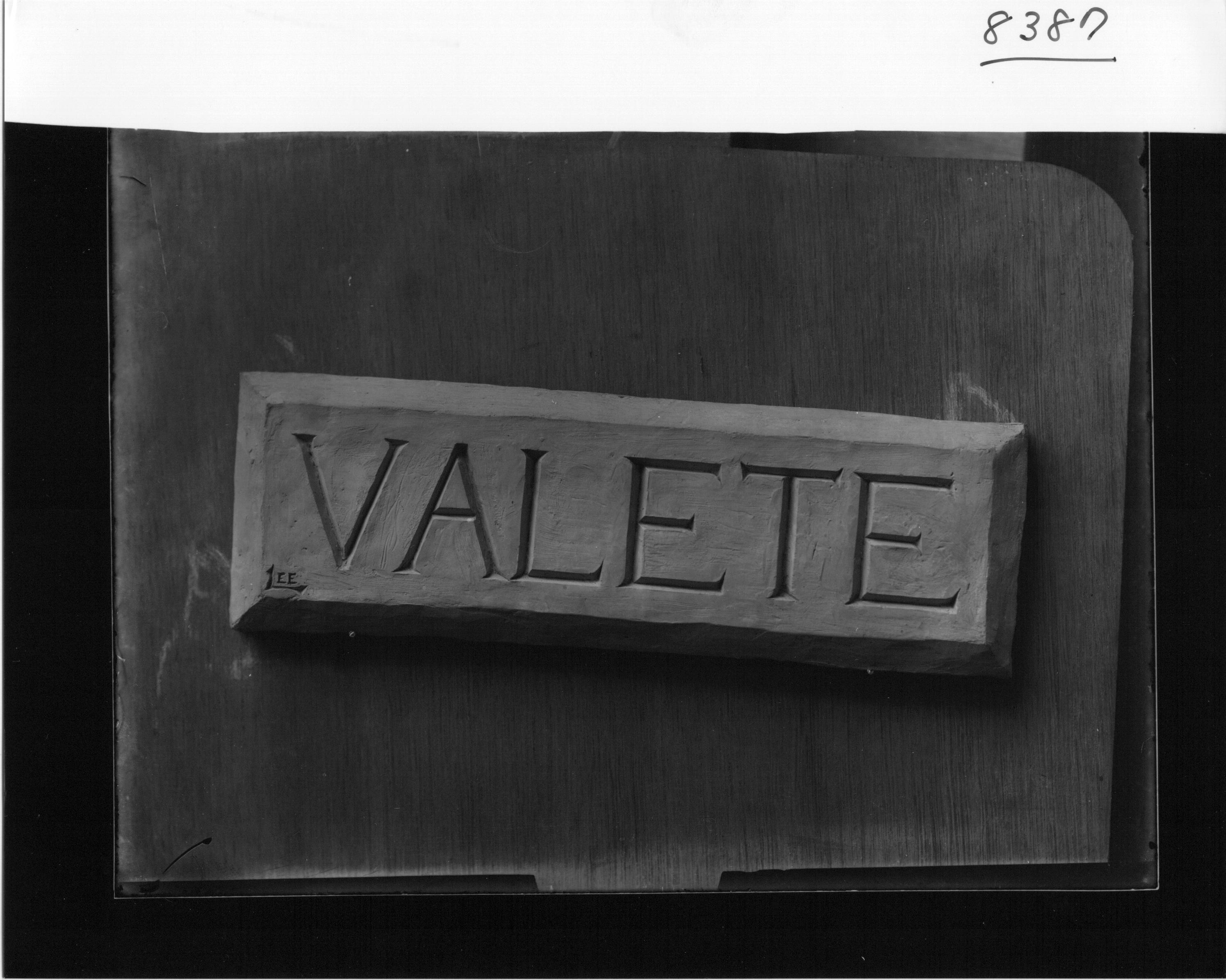 Persistent URL: Subject (TGM): Engravings; Stone carving; Location: Oxford, Ohio [Taken for?] Mr. Lee; Recensio.